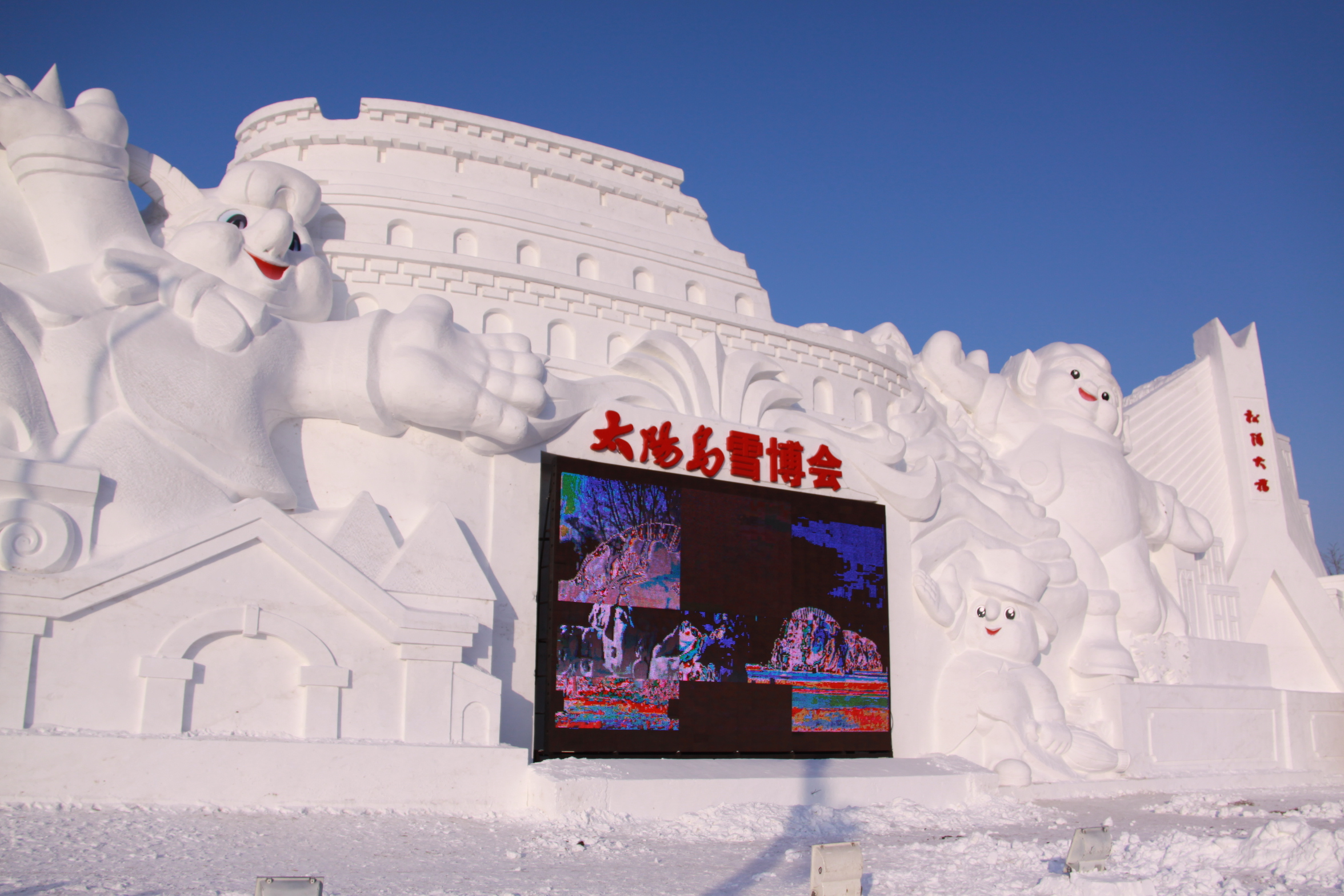 2011 Harbin International Snow Sculpture EXPO, held in Sun Island Park.